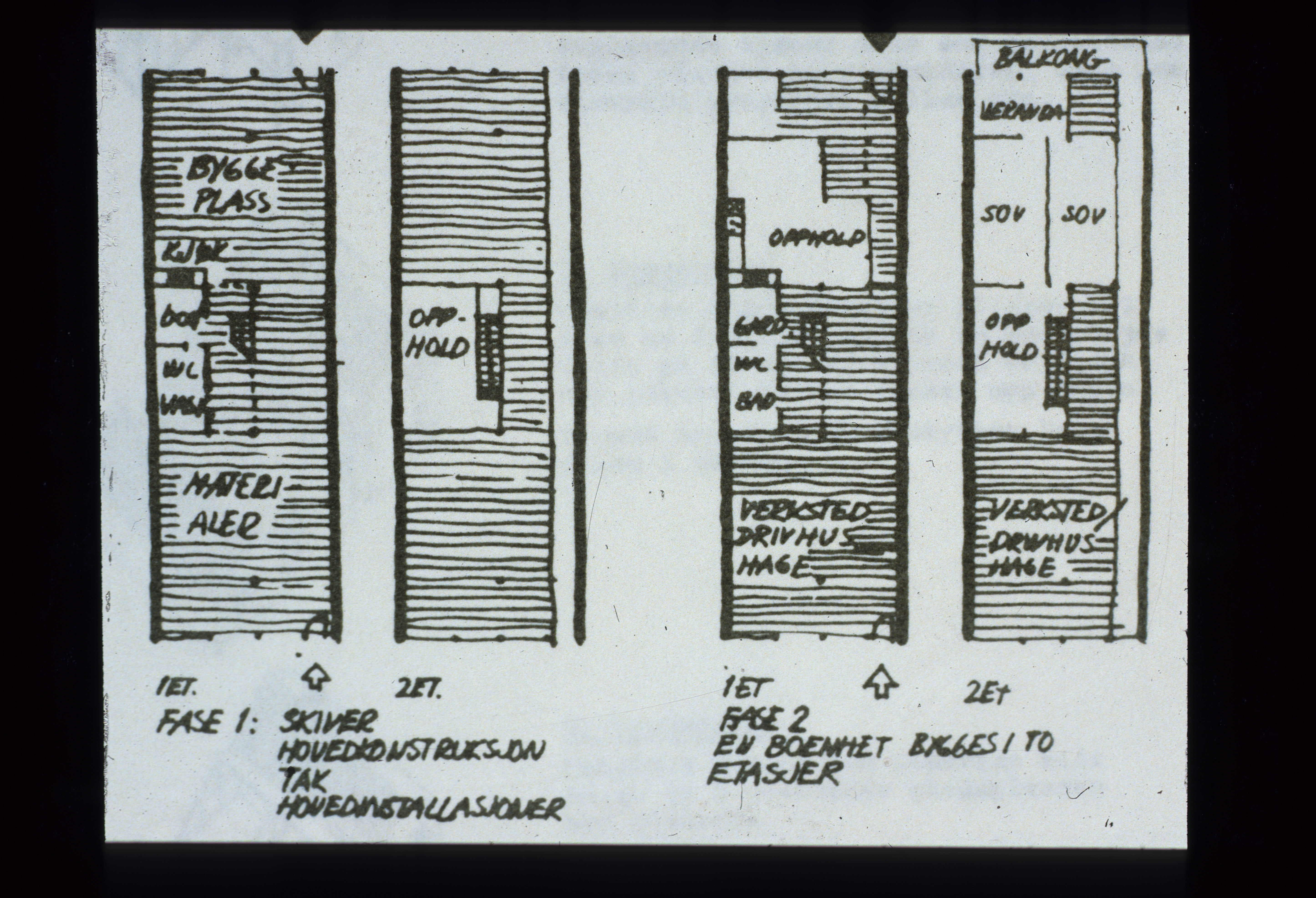 plans of possible use of the experimental house Skiboli. Drawn by the architect Birgit Cold